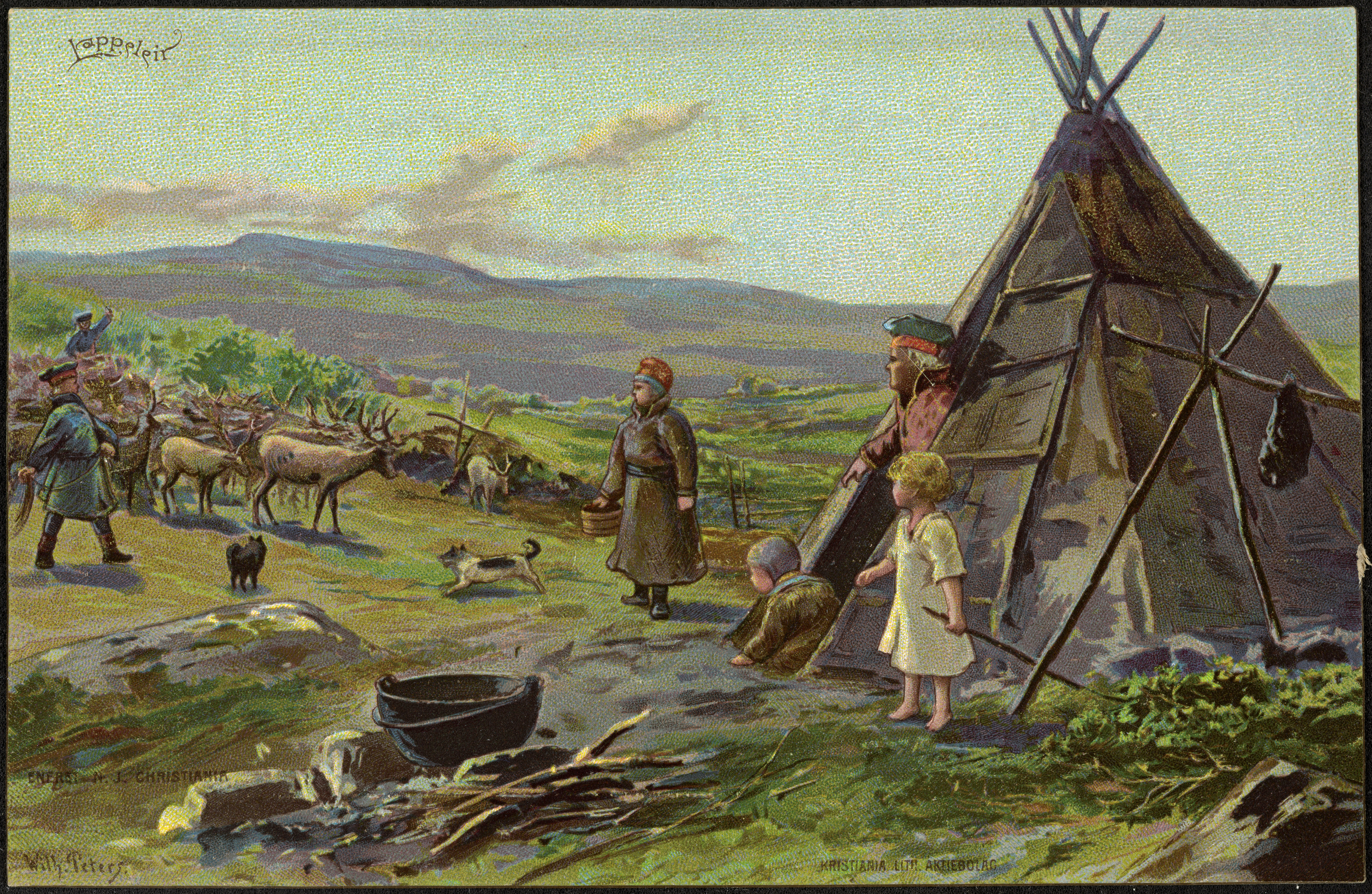 Image from "Postcards, Sami" , an album of 19 images uploaded to by Nasjonalbiblioteket (National Library of Norway) in 2016. The image on Flickr is marked with "No known copyright restrictions».